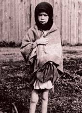 A girl in Kharkiv during the 1932–33 famine, without the goat. This manipulated version of the image has been used as proof, that the Holodomor was genocide, see for example The Unknown Genocide of Ukrainians (image).